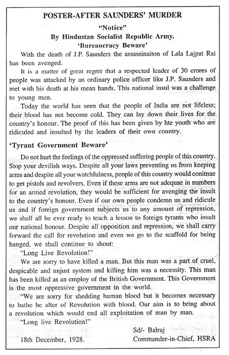 Copyright expired in India, as the author of this pamphlet died in 1931. Pamphlet was published in December 1928.